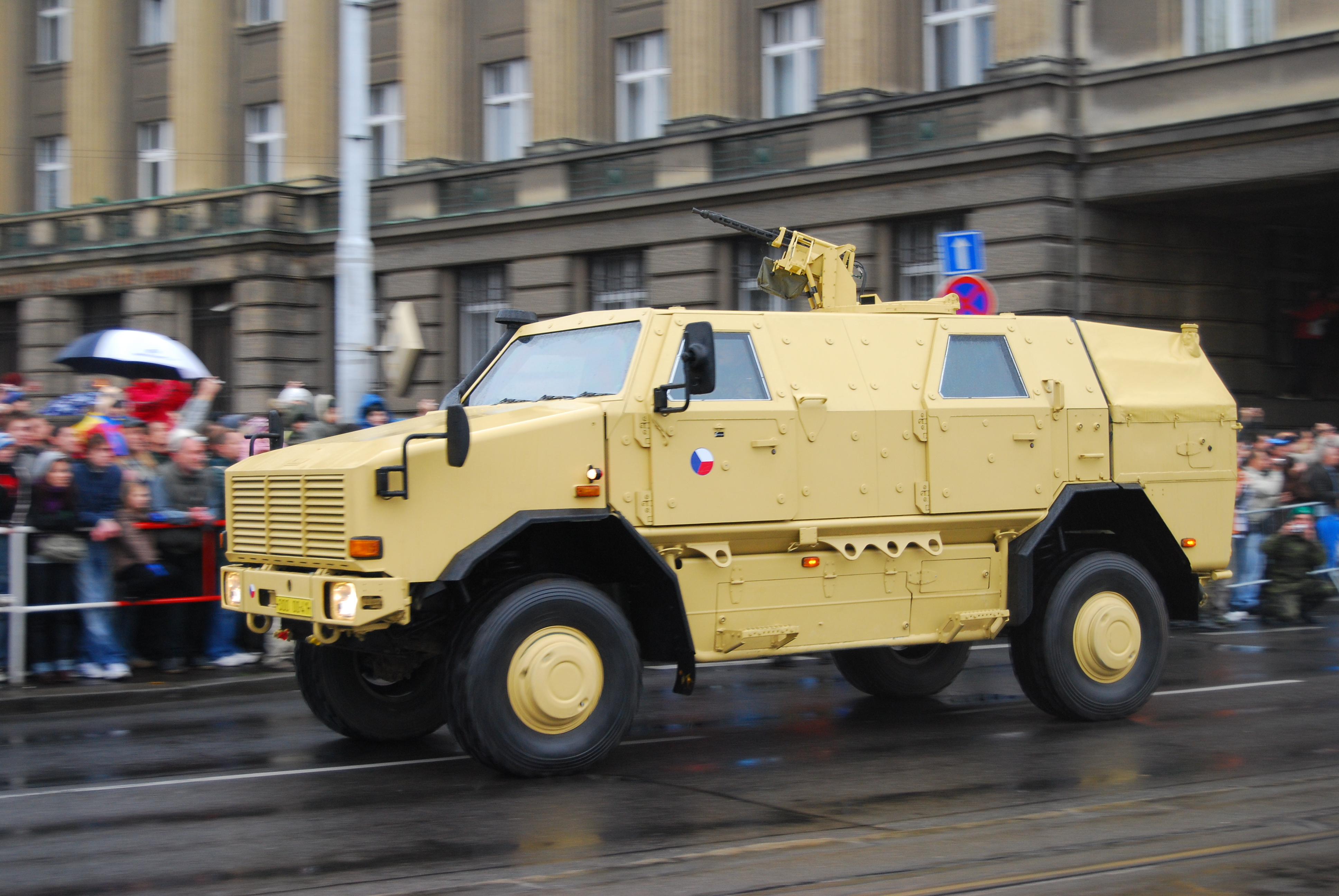 Military parade in Prague, Czech Republic as the 90th anniversary of independence of the Czechoslovakia. ATF Dingo 2 CZ